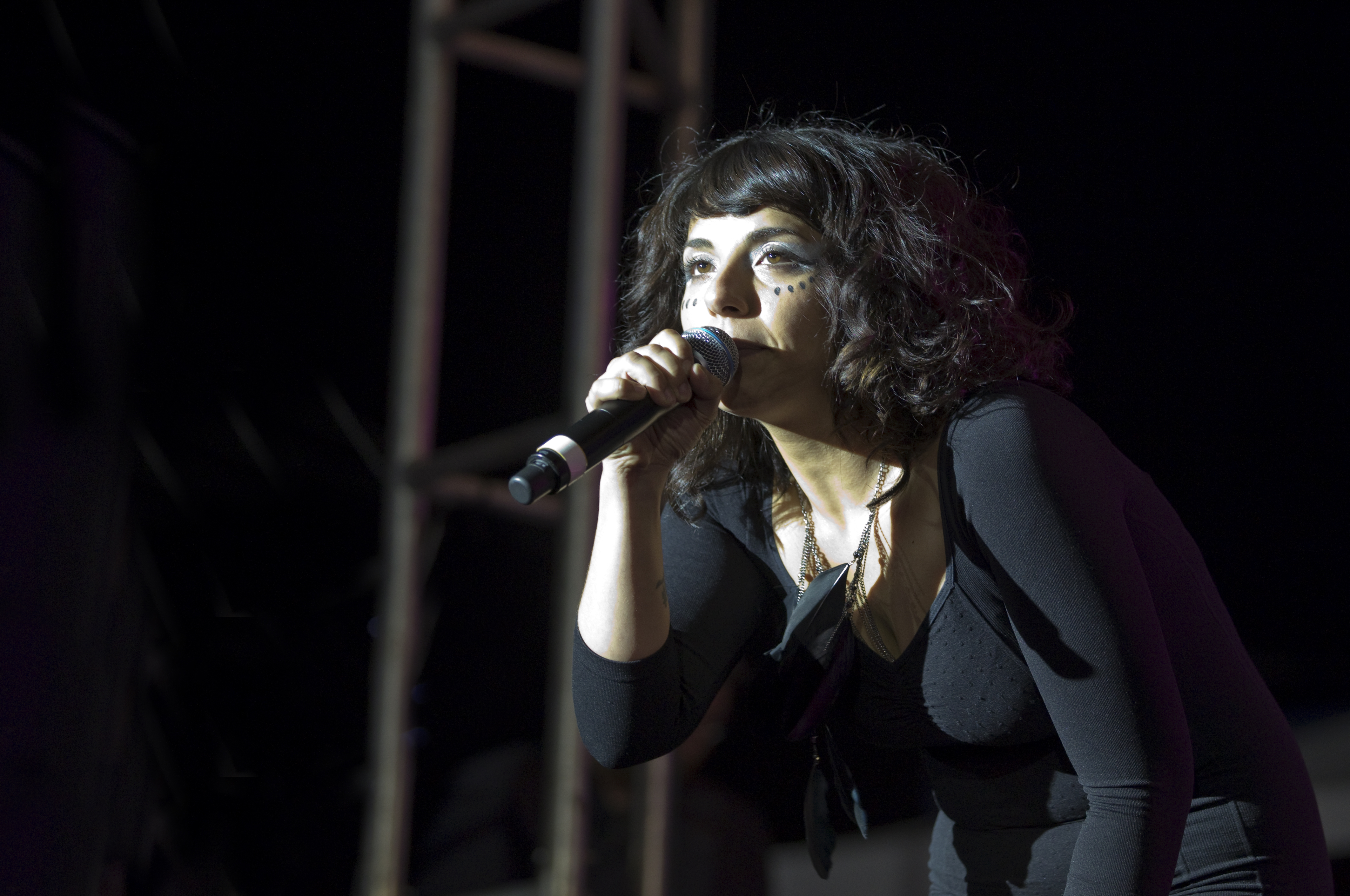 C34P0192